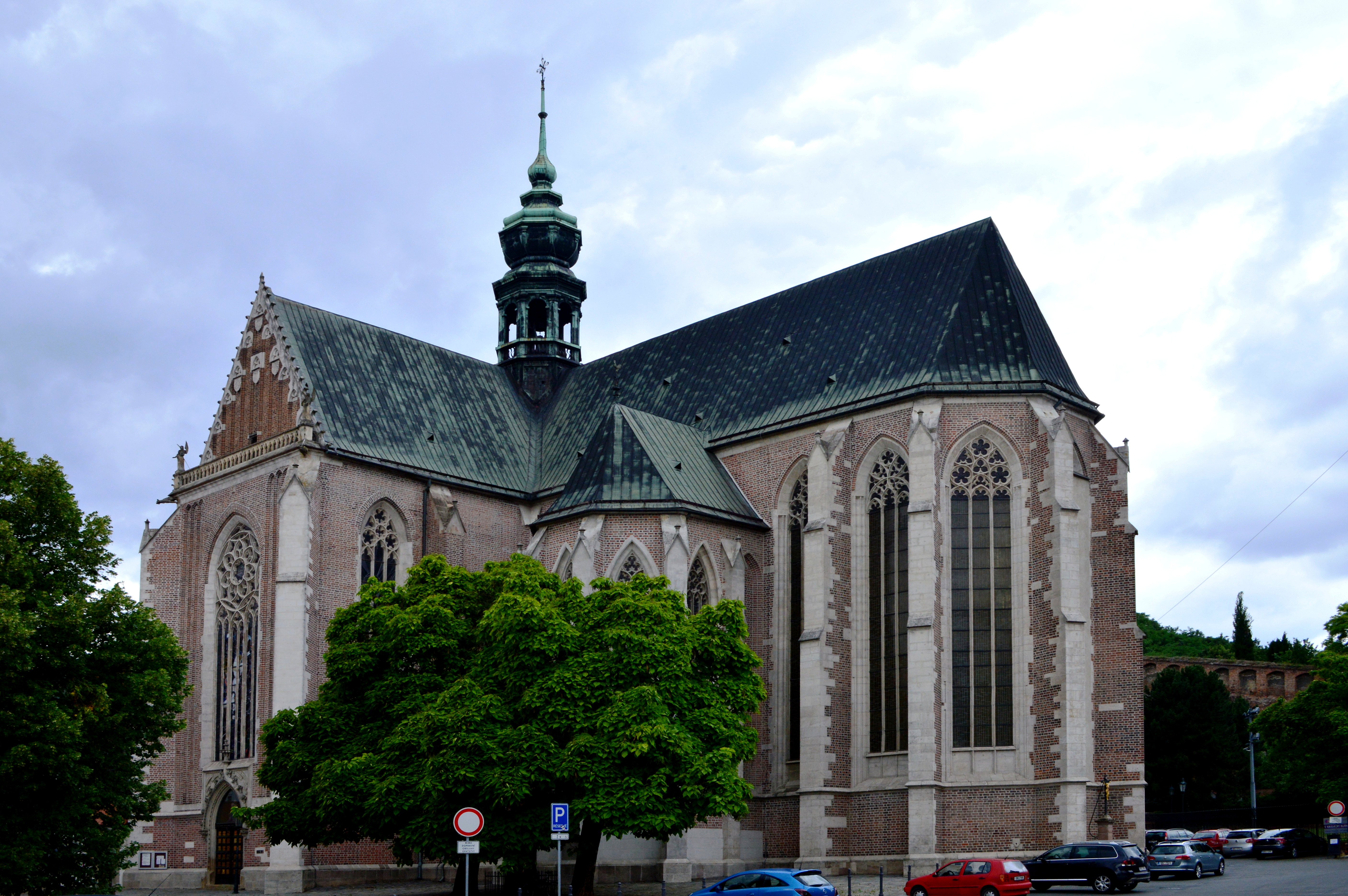 Brno is the second largest city in the Czech Republic by population and area, the largest Moravian city, and the historical capital city of the Margraviate of Moravia. Brno is the administrative centre of the South Moravian Region and lies at the confluence of the Svitava and Svratka rivers. The city was founded about a thousand years ago, it received city status in the year 1243, and for centuries it served as the capital city of Moravia, until 1948 when the autonomy of Moravia was abolished by the communists. The city flourished mainly during the nineteenth century. Today's Brno is a mixture of many different architecture styles. The most visited sights of the city include the Špilberk Castle and fortress and the Cathedral of Saints Peter and Paul on Petrov Hill, two medieval buildings that dominate the city skyline and are often depicted as its traditional symbols. The other large preserved castle near the city is Veveří Castle by the Brno Dam Lake. This castle is the site of a number of legends, as are many other places in Brno. The Scotch Mist Gallery contains many photographs of historic buildings, monuments and memorials of Poland and beyond.